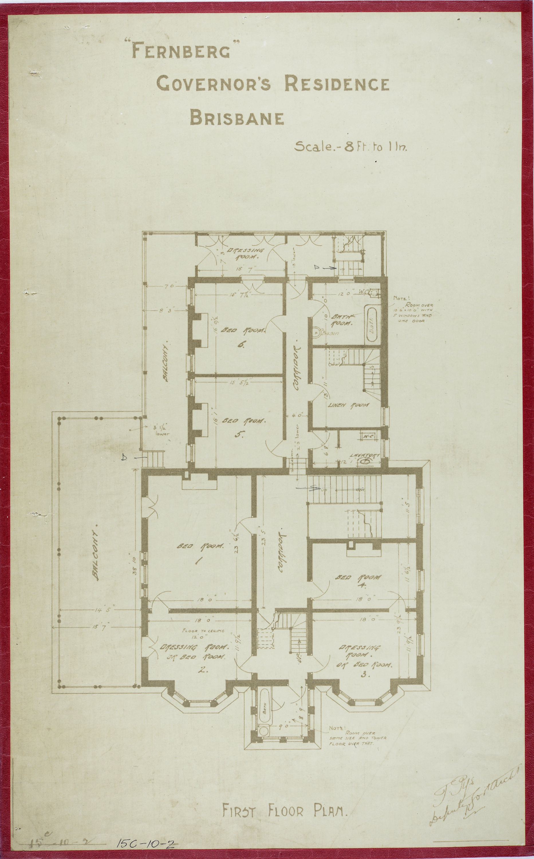 Fernberg, Governor's Residence, Brisbane, First Floor Plan, c 1884